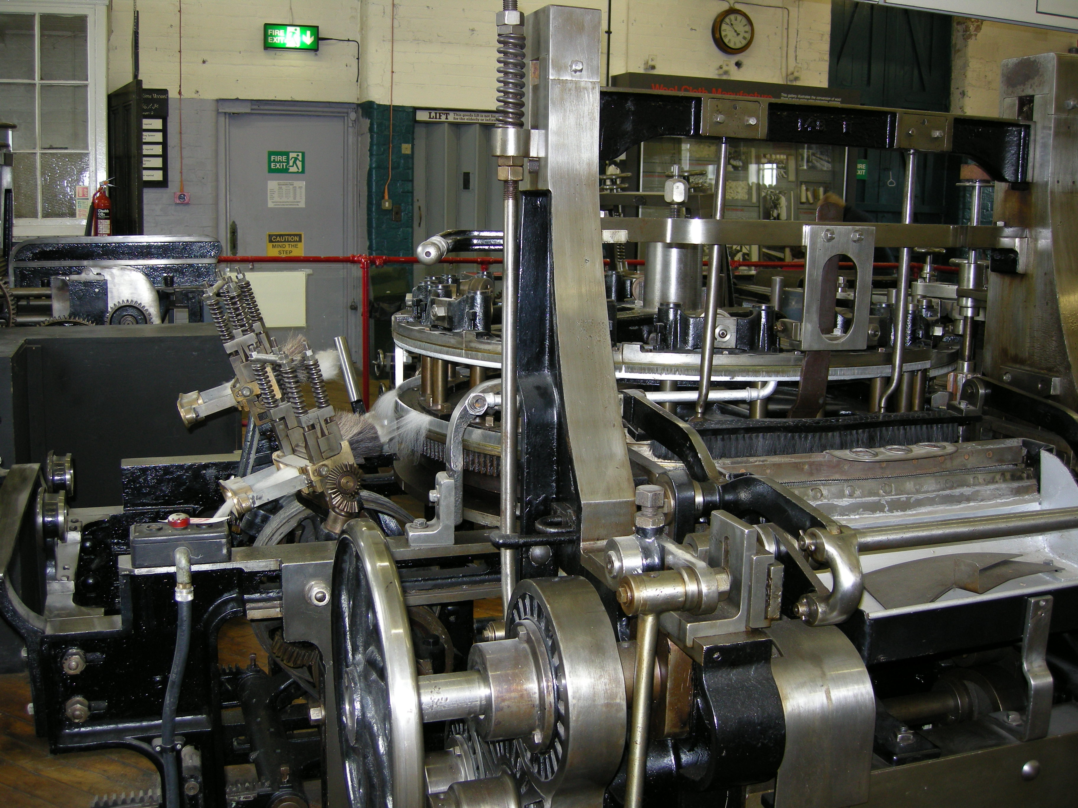 Spinning machines at Bradford Industrial Museum, Bradford, West Yorkshire, England. 53.48'.40".N; 1.43'.16".W.